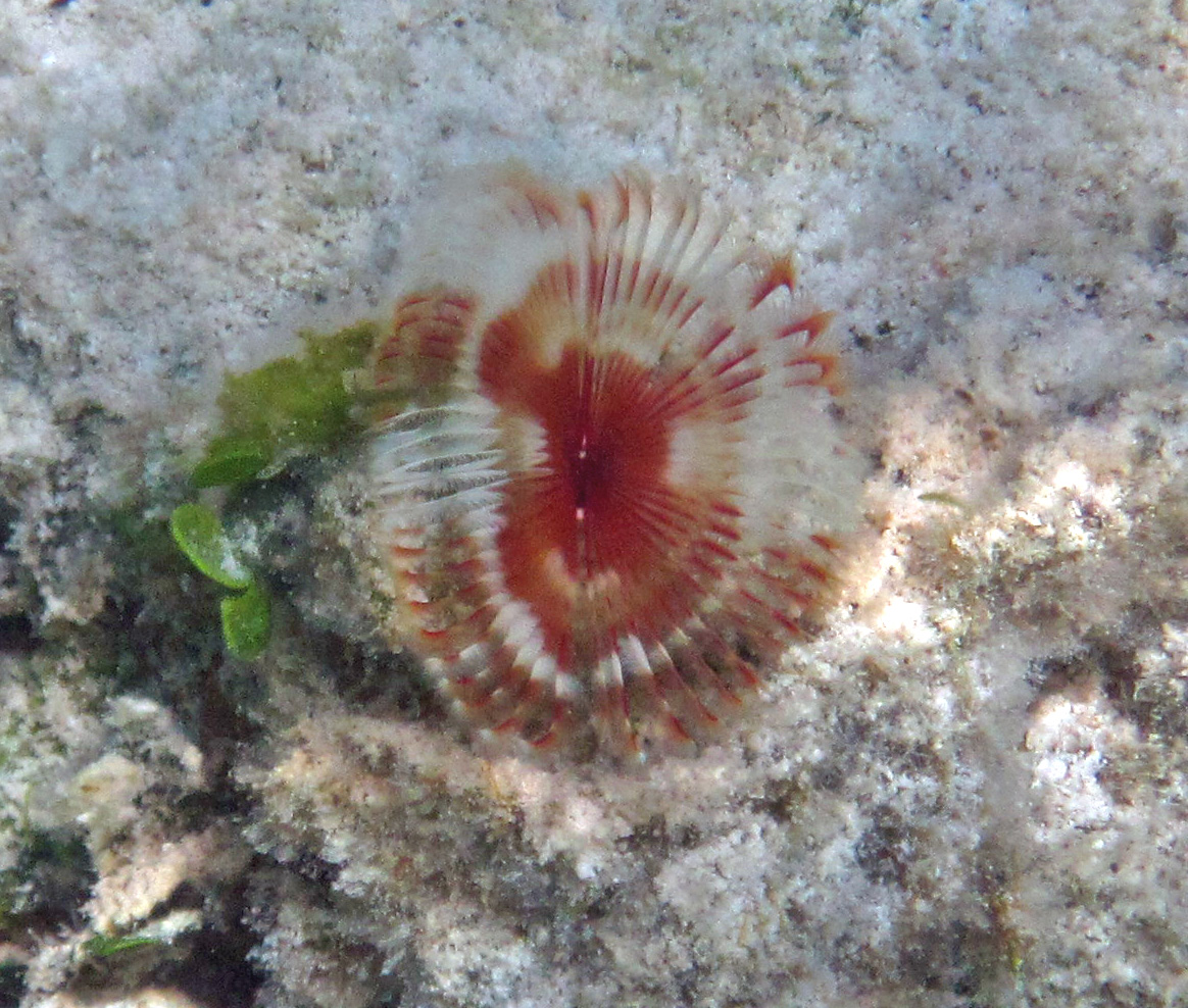 Anamobaea orstedii (Krøyer, 1856) - split-crown feather duster worm at a patch reef. The bodies of split-crown feather duster worms occupy irregularly cylindrical tubes composed of organic material and fine-grained sediments. The tubes are buried in the seafloor (infaunal). The worm shown above has extended its crown of feathery appendages, which extracts dissolved oxygen and filters the water for particles of food (filter feeding/suspension feeding). When disturbed, the worm quickly retracts its feeding appendages. Classification: Animalia, Annelida, Polychaeta, Sedentaria, Sabellidae Locality: patch reef just west of Cut Cay, eastern Graham’s Harbour, northeastern San Salvador Island, eastern Bahamas